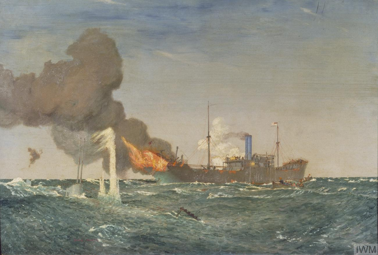 This event occured on 8 August 1917 roughly 130 miles south-west of Ushant in the Bay of Biscay. Dunraven did not manage to damage UC-71 but was significantly damaged herself, to the extent that she sunk early on 10 August after the British destroyer HMS Christopher had begun to tow her towards Plymouth. Two of the crew members - Lieutenant Charles Bonner and Petty Officer Ernest Pitcher - were awarded Victoria Crosses by ballot to represent the efforts of the Dunraven's crew.